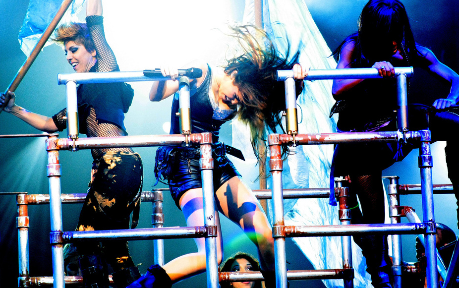 Pop singer Miley Cyrus performs "Start All Over", wearing a black, leather hotpants suit, atop movable scaffoldings with back dancers, on October 6, 2009 at The Palace of Auburn Hills in Auburn Hills, Michigan, as part of her 2009 Wonder World Tour.